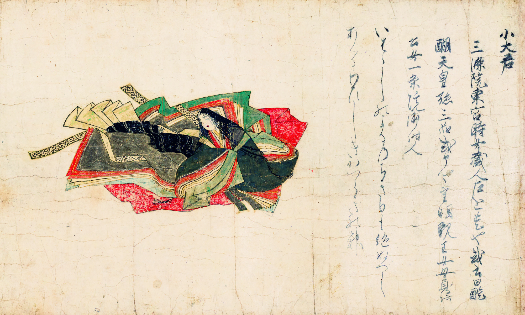 Kodai no Kimi from the thirty-six poetry immortals, Yamato Bunkakan, Nara, Nara, Japan